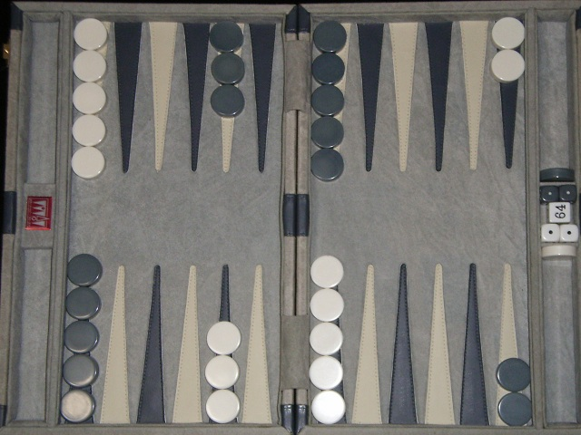 Official Japanese backgammon board